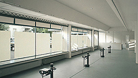 Showing the interior of the "Artists Gallery" in Frankfurt am Main with the site-specific work of Charly Steiger at daytime during the opening hours of the gallery.